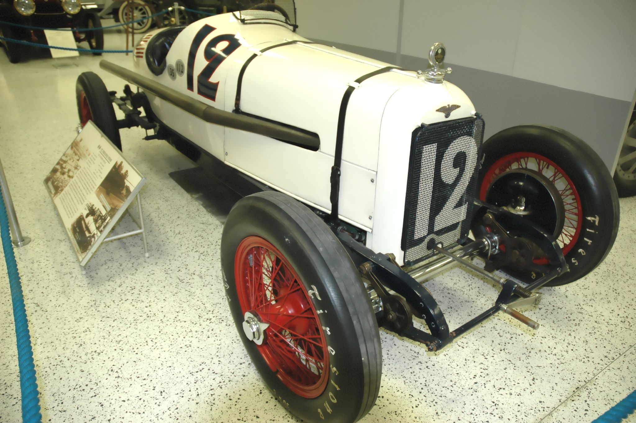 The winning Duesenberg Type 183 race car from the 1921 French Grand Prix (at Le Mans) and the 1922 Indianapolis 500 at the museum at Indianapolis Motor Speedway. This is the first race car with four wheel hydraulic brakes.